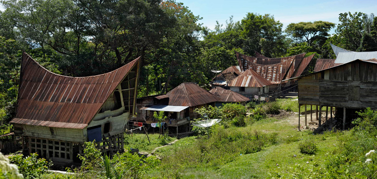 Batak village on Samosir island, Lake Toba